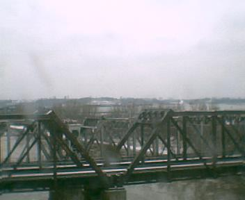 Missouri Pacific Bridge, West Bottoms.